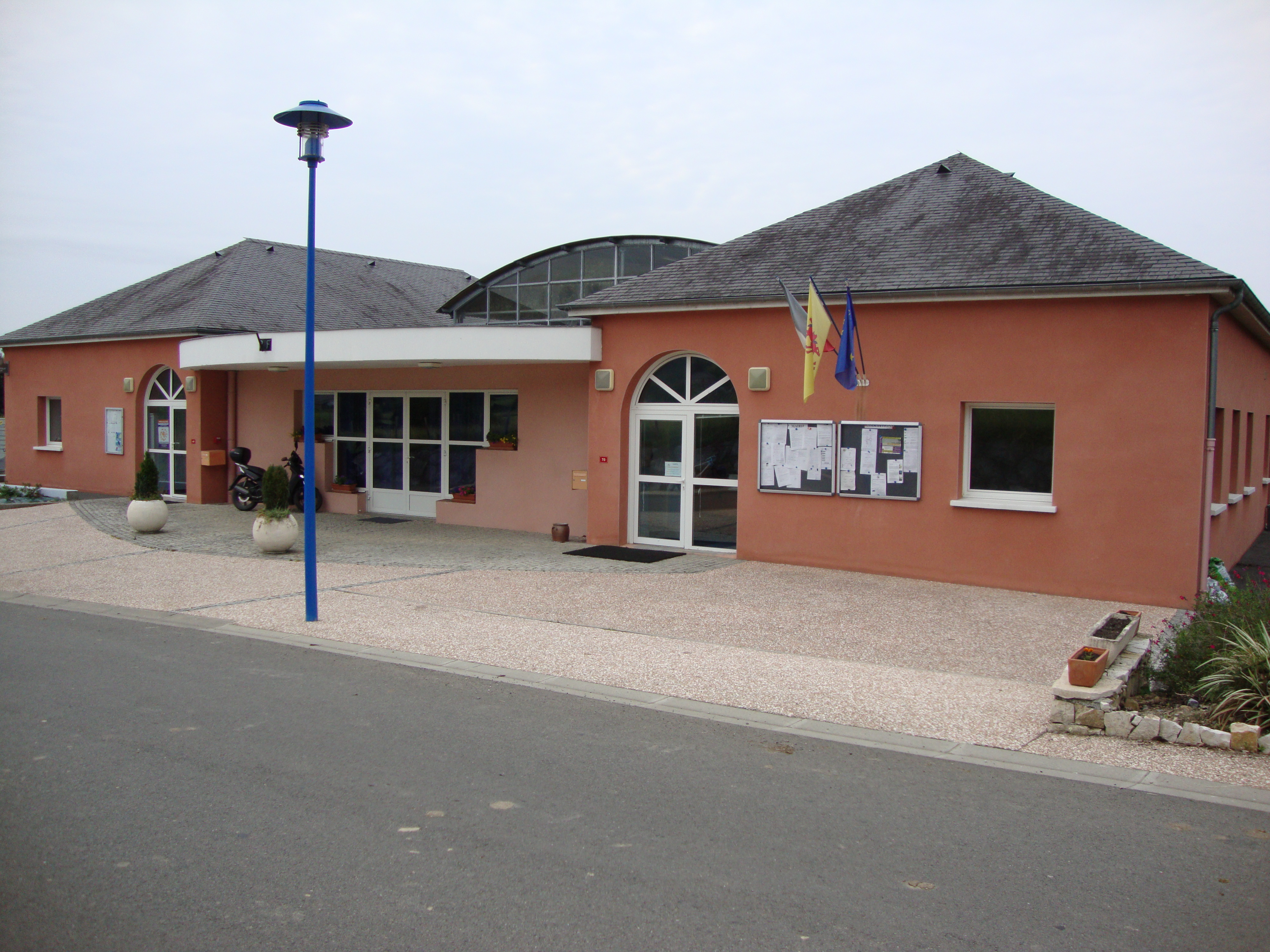 Estialesq (Pyr-Atl, Fr) town hall